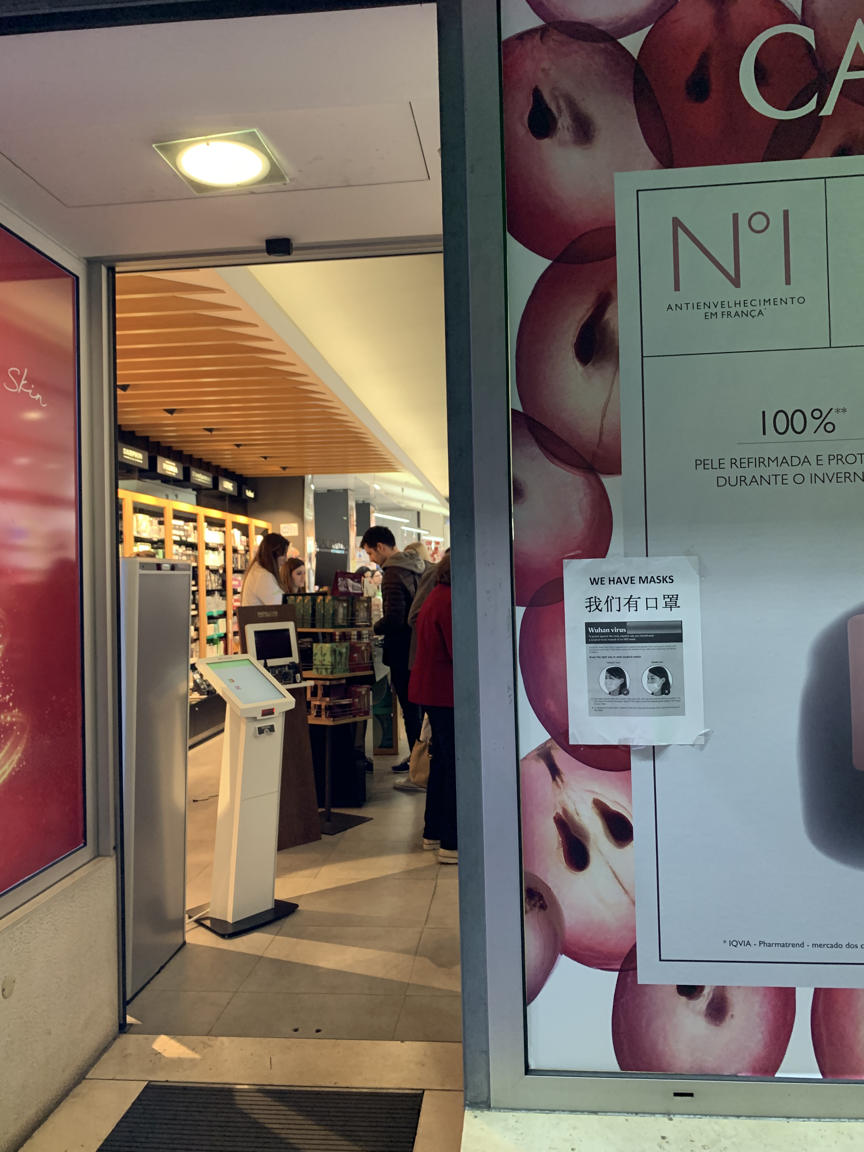 20200206_LisbonShop_6219